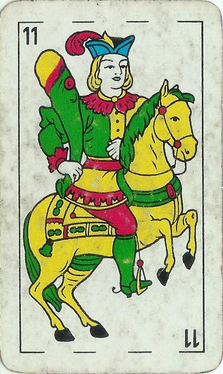 Knight of bastos of the Spanish Deck